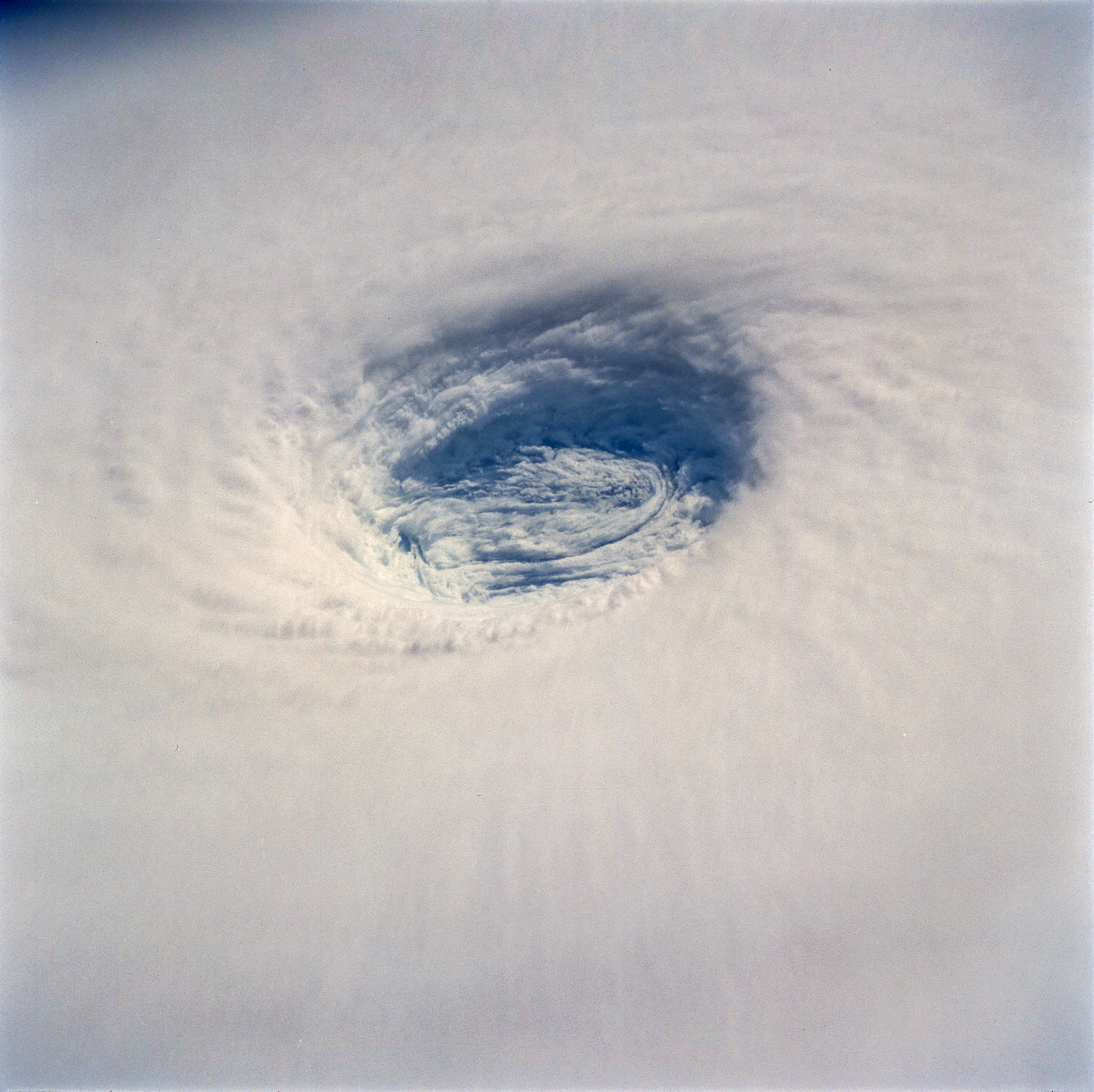 STS044-093-080 Typhoon Yuri, Pacific Ocean November 1991 This spectacular, low-oblique photograph shows the bowl-shaped eye (center of photograph) of Typhoon Yuri in the western Pacific Ocean just west of the Northern Mariana Islands. The eye wall descends almost to the sea surface, a distance of nearly 45 000 feet (13 800 meters). In this case the eye is filled with clouds, but in many cases the sea surface can be seen through the eye. Yuri grew to super typhoon status, packing maximum sustained winds estimated at 165 miles (270 kilometers) per hour, with gusts reaching an estimated 200 miles (320 kilometers) per hour. The storm moved west toward the Philippine Islands before turning northeast into the north Pacific Ocean, thus avoiding any major landmass.